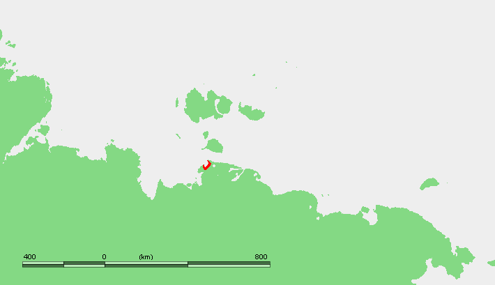 location map